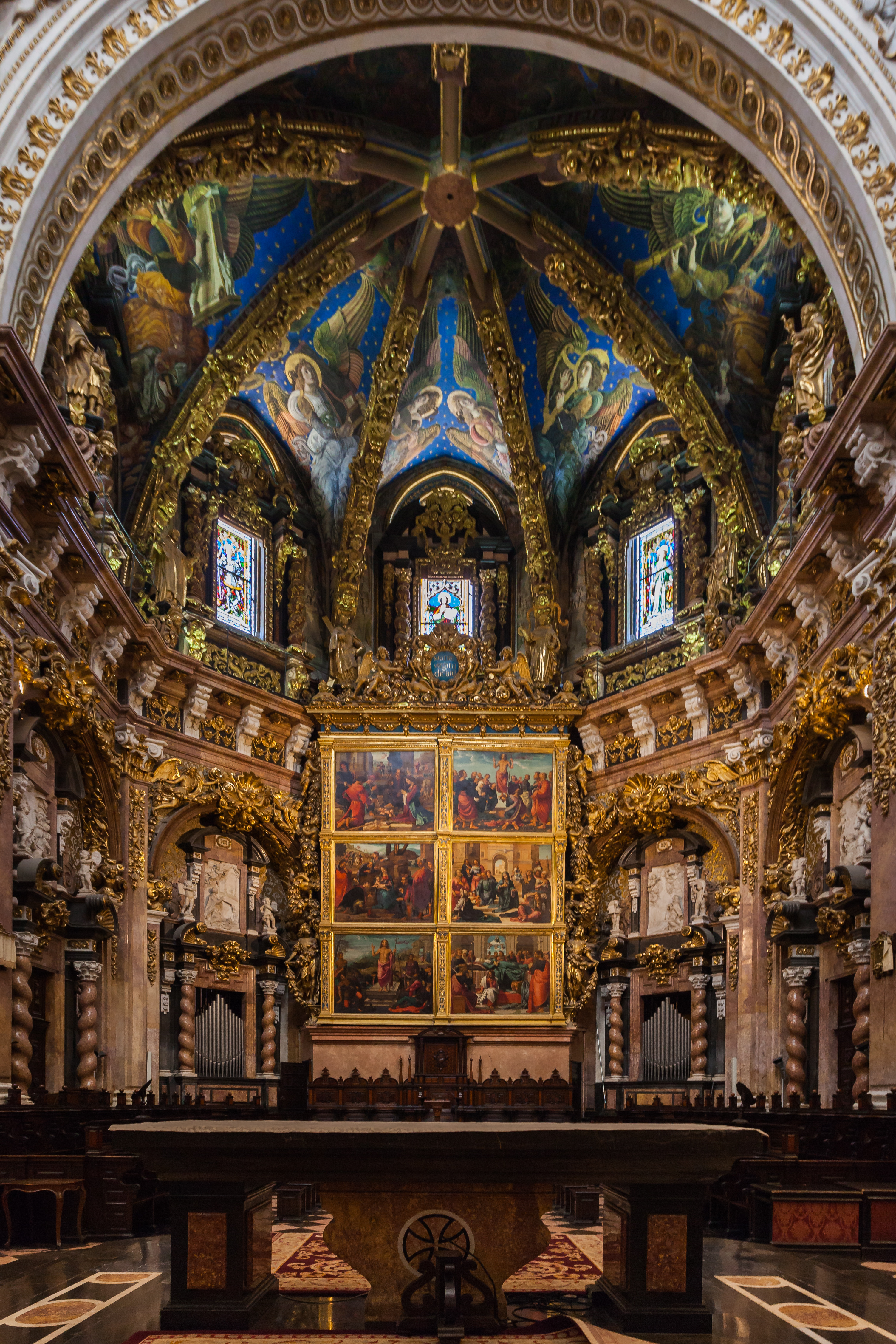 Main Chapel, Valencia Cathedral, Valencia, Spain